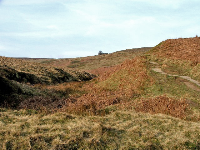 The Climb to Top Withens. Thought to be the inspiration for the Earnshaws' home in Emily Bronte's novel 'Wuthering Heights'.